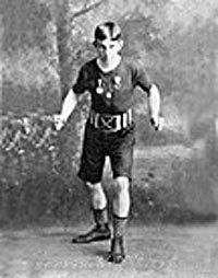 Item part of: Canada. Patent and Copyright Office collection Jack Caffery, winner of the Boston-Marathon, 1900 and 1901 Restrictions on use/reproduction: Copyright: Expired Credit: unknown Source: unknown